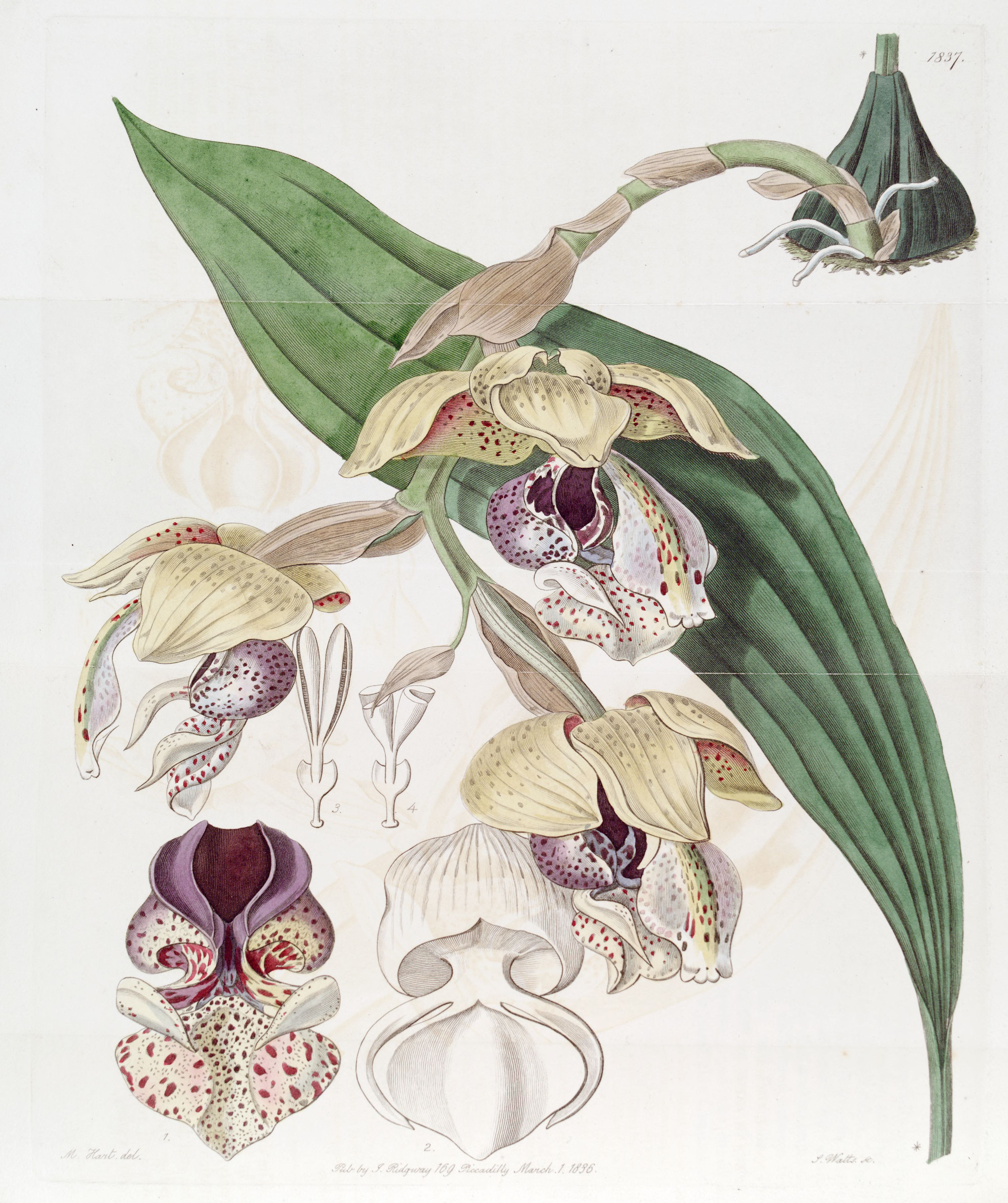 Stanhopea insignis